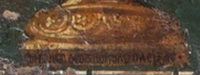 Detail from Dormition of the Virgin by El Greco, El Greco's signature (ΔΟΜΗΝΙΚΟC ΘΕΟΤΟΚΟΠΟΥΛΟC Ο ΔΕΙΞΑC) at the base of the central candelabra